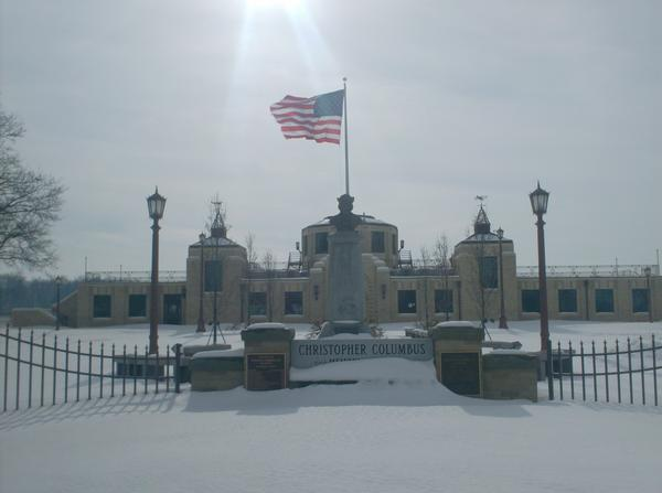 Theken Spine HQ in the former Akron Fulton International Airport administration building